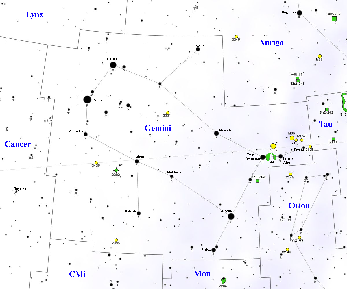 Gemini constellation map, with DSOs